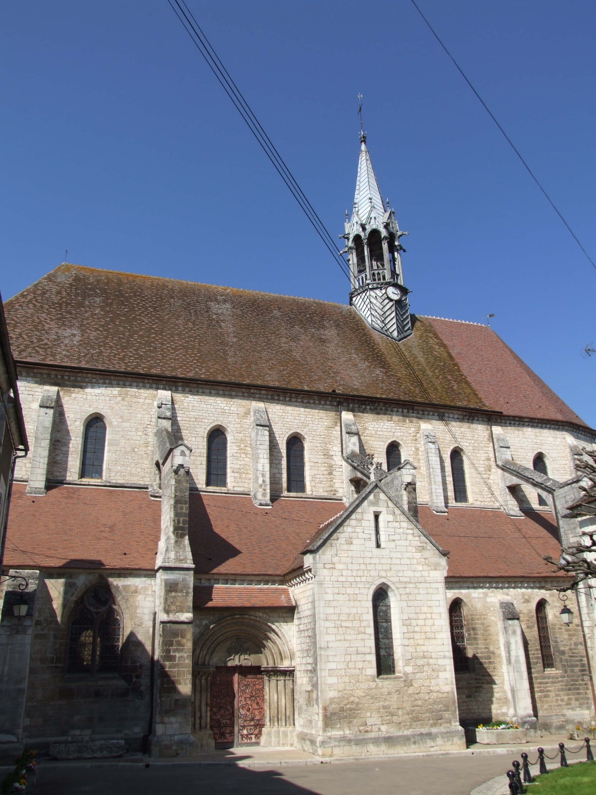 Saint-Martin church, Chablis, Burgundy, FRANCE